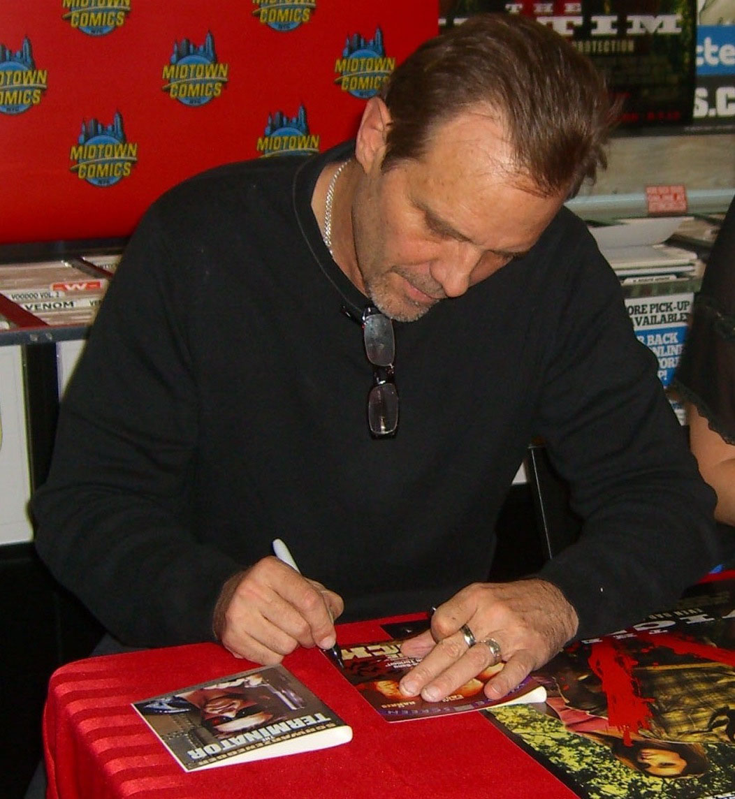 Actor/director Michael Biehn (The Terminator , Aliens, The Abyss) at an August 23, 2012 appearance at Midtown Comics Downtown in Manhattan to promote his directorial debut, the horror film The Victim, in which he also stars. In the photo, Biehn is signing DVD covers to the films The Terminator and The Rock, in which Biehn starred. This photo was created by Luigi Novi. It is not in the public domain, and use of this file outside of the licensing terms is a copyright violation.